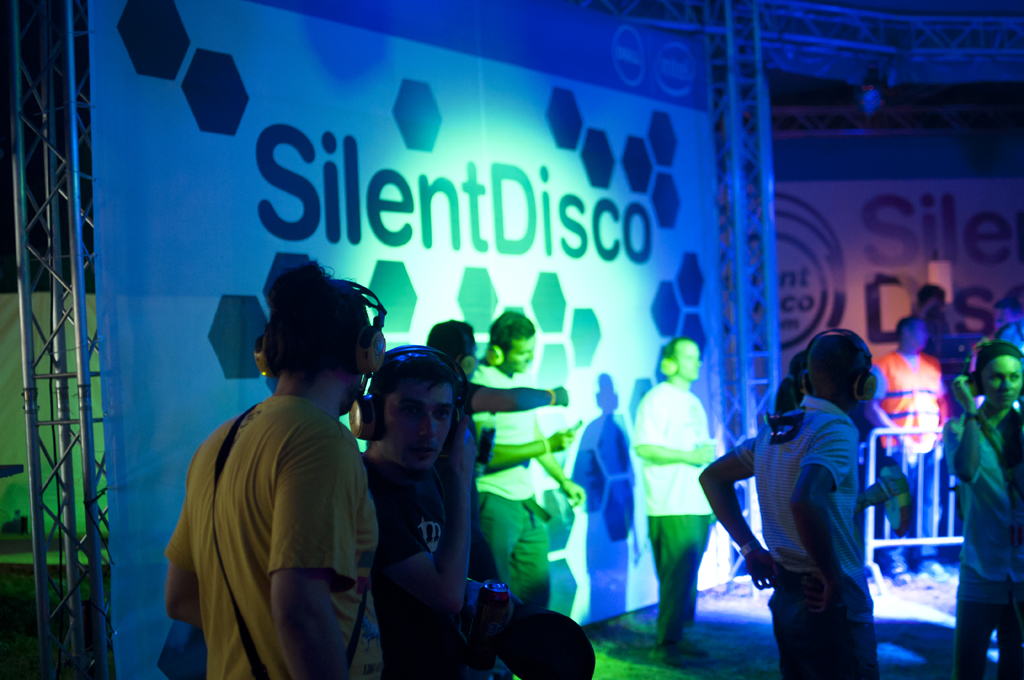 Silent Disco, EXIT 2012.